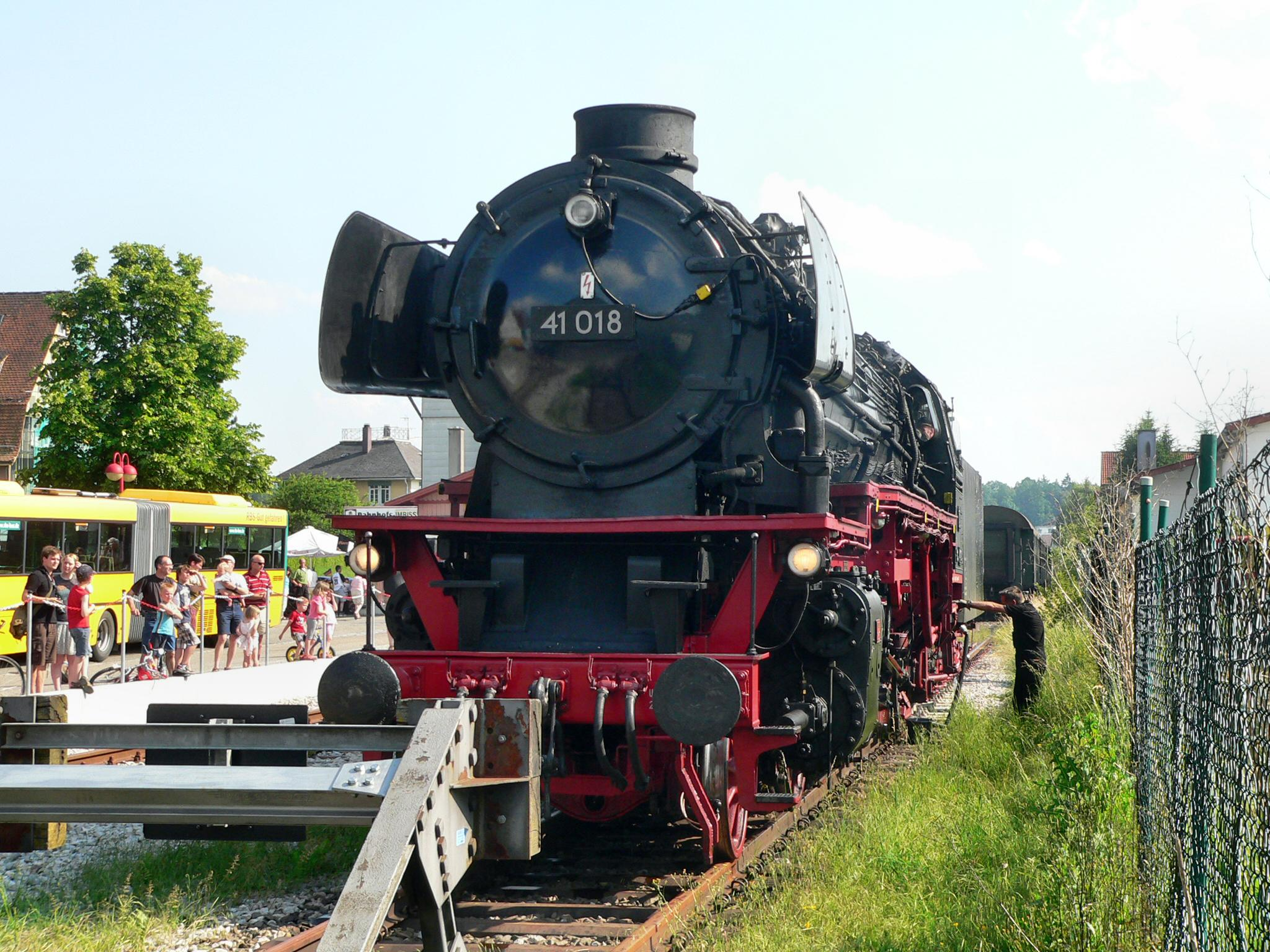 Loco 41018 in Welzheim, Germany